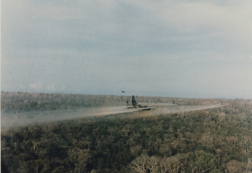 Group of U.S military C-123 aircraft spraying Agent Orange over Vietnamese jungle.